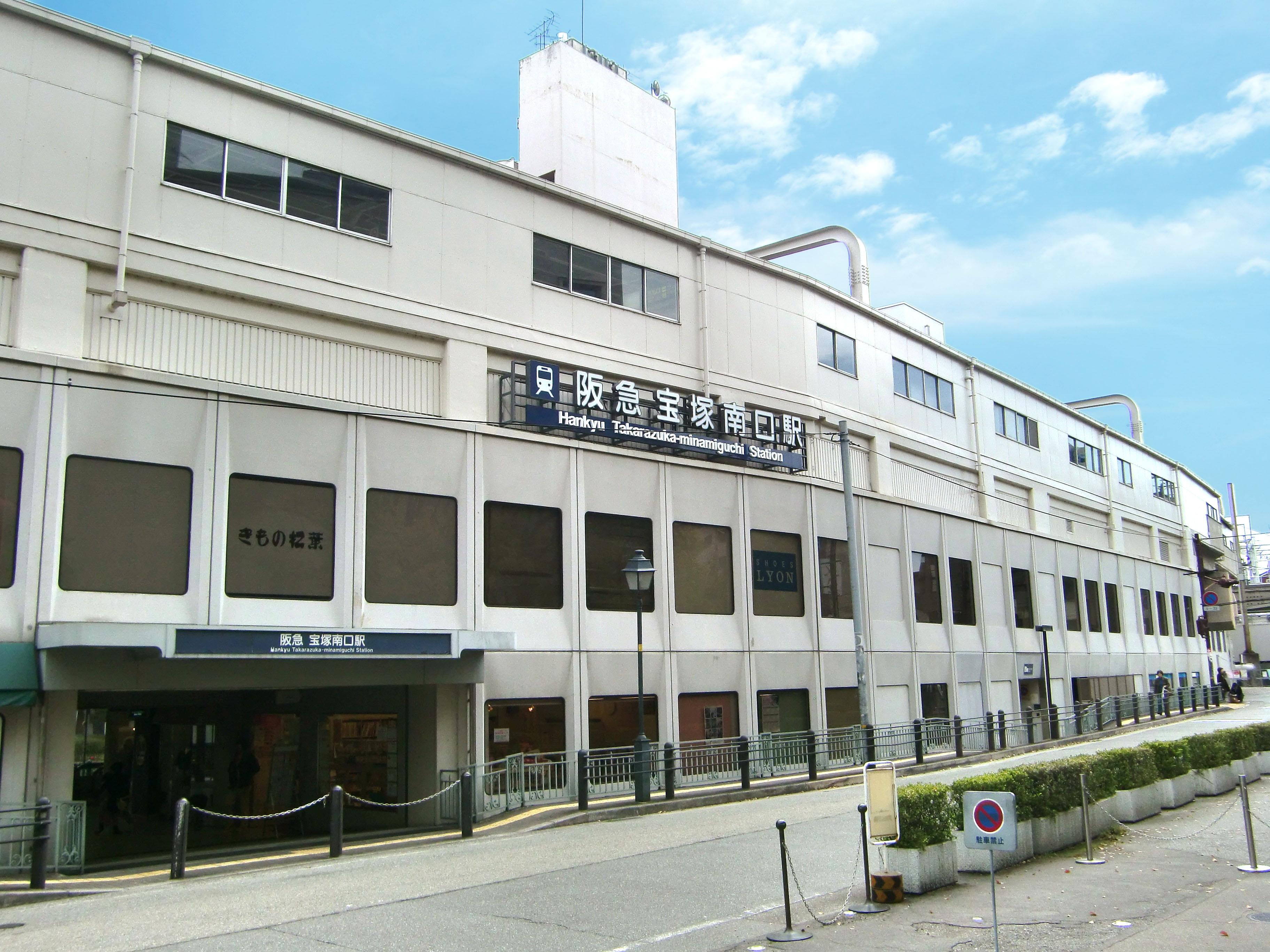 Takarazuka-Minamiguchi Station, 1 Minamiguchi Takarazuka-City Hyogo Japan.